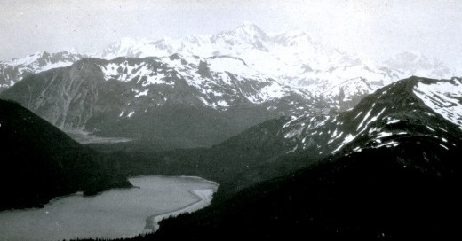 Mount Fairweather, Alaska-British Columbia, 1925Dixon Harbor with Mount Fairweather in the center of the photo.